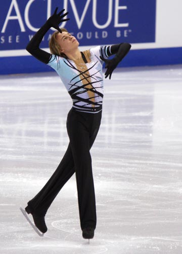 Skate Canada 2008 Vladimir USPENSKI